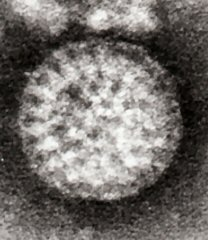 A rotavirus particle from a transmission electron micrograph made by Thomas Henry Flewett and left in the possession of Dr G.M. Beards.